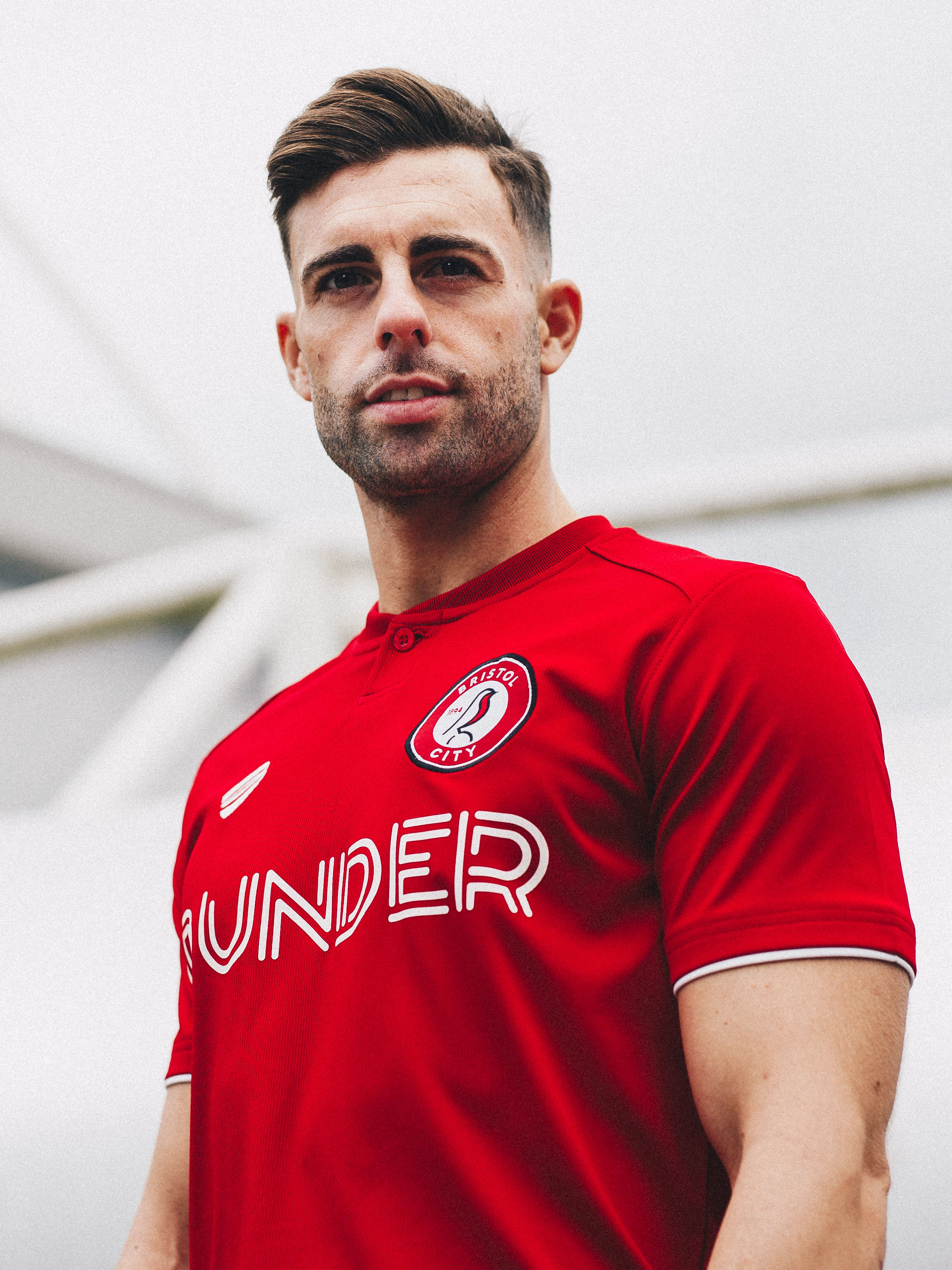 Bristol City sign Rodri